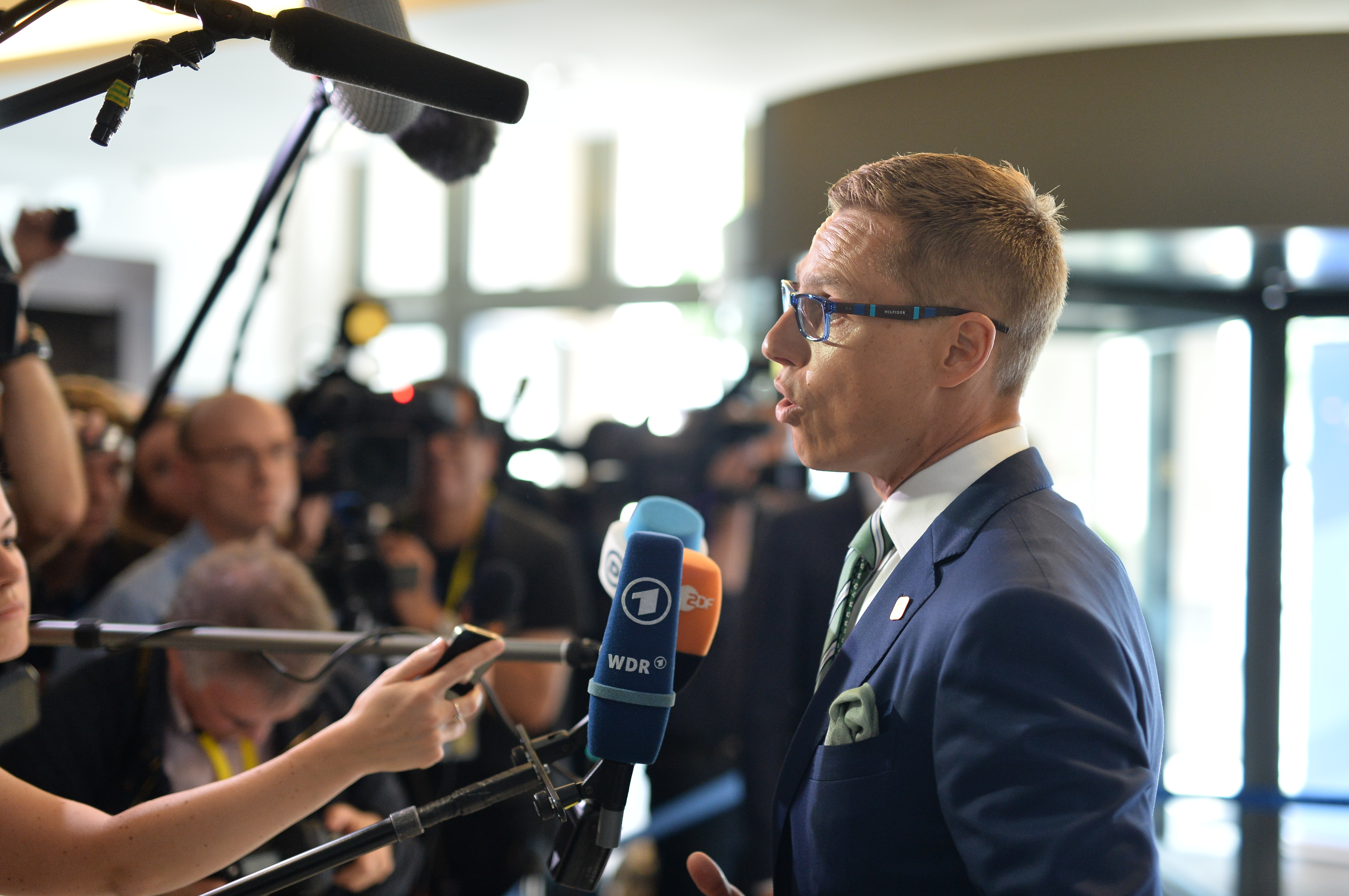 European People's Party Summit in Brussels in July 2014 in preparation of the European Council meeting